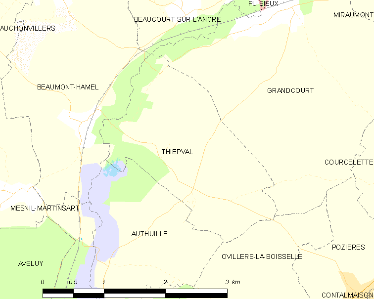 Map of French municipality Thiepval